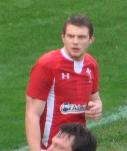 2013 Six Nations Italy vs Wales